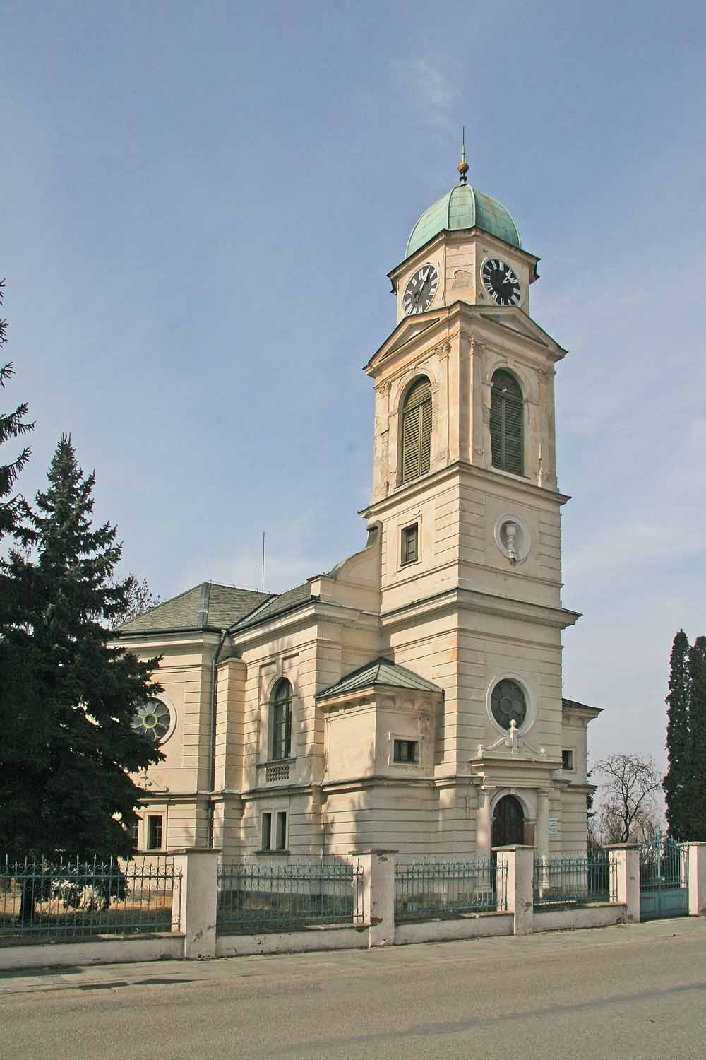 Protestant church in Libice nad Cidlinou, Czech Republic.